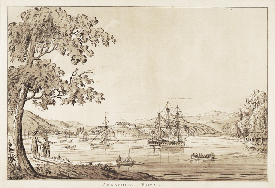 Annapolis RoyalThis is a later copy of a view which appears in HNS 22. There are two variants in the collection. HNS 23A Annapolis Royal